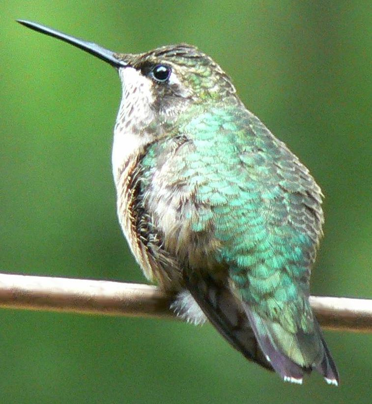 Immature Male Ruby-throated Hummingbird, Gadsden Co. FL